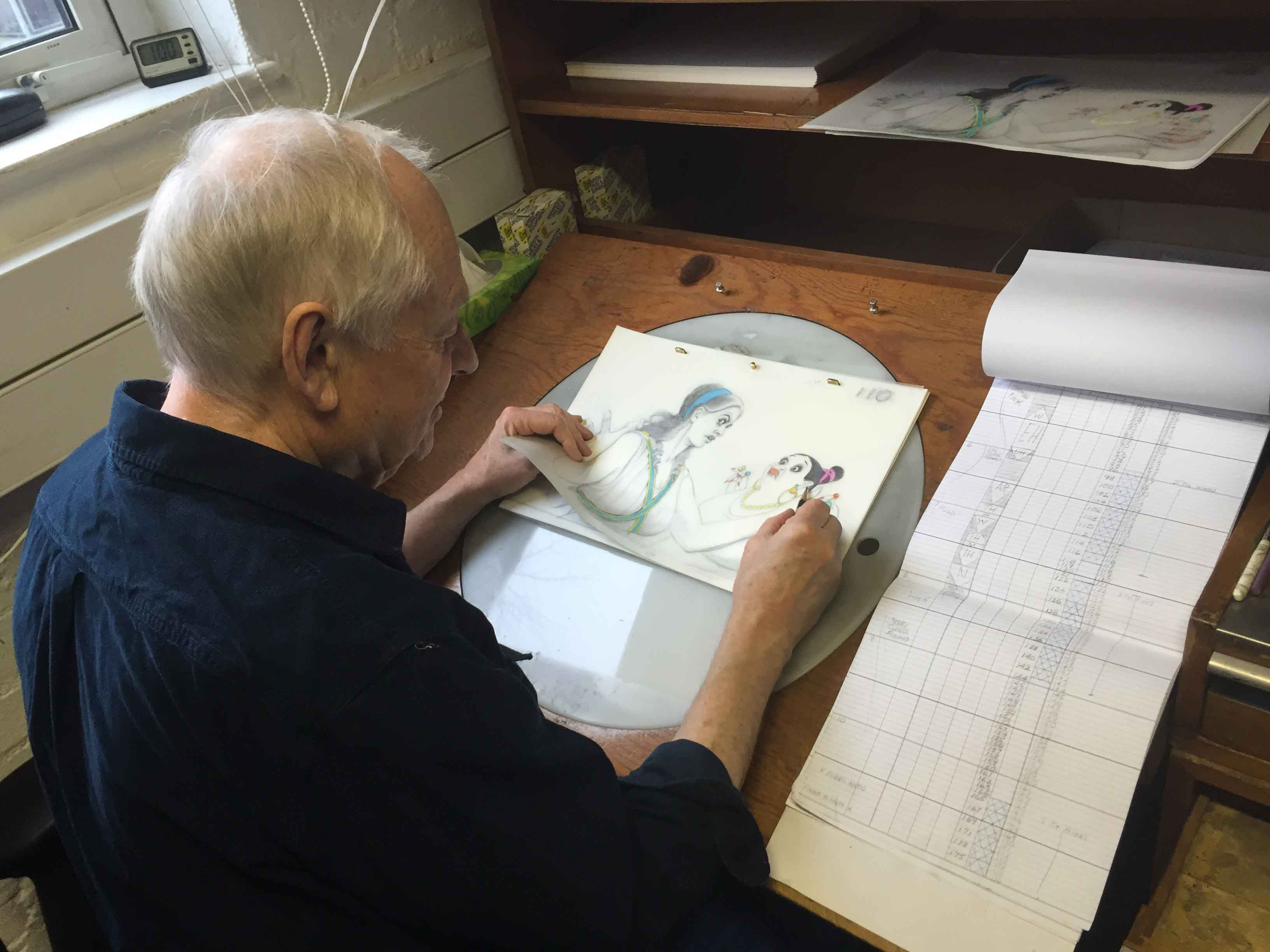 Richard Williams at Aardman Animation in 2015, working on his animated short "Prologue"